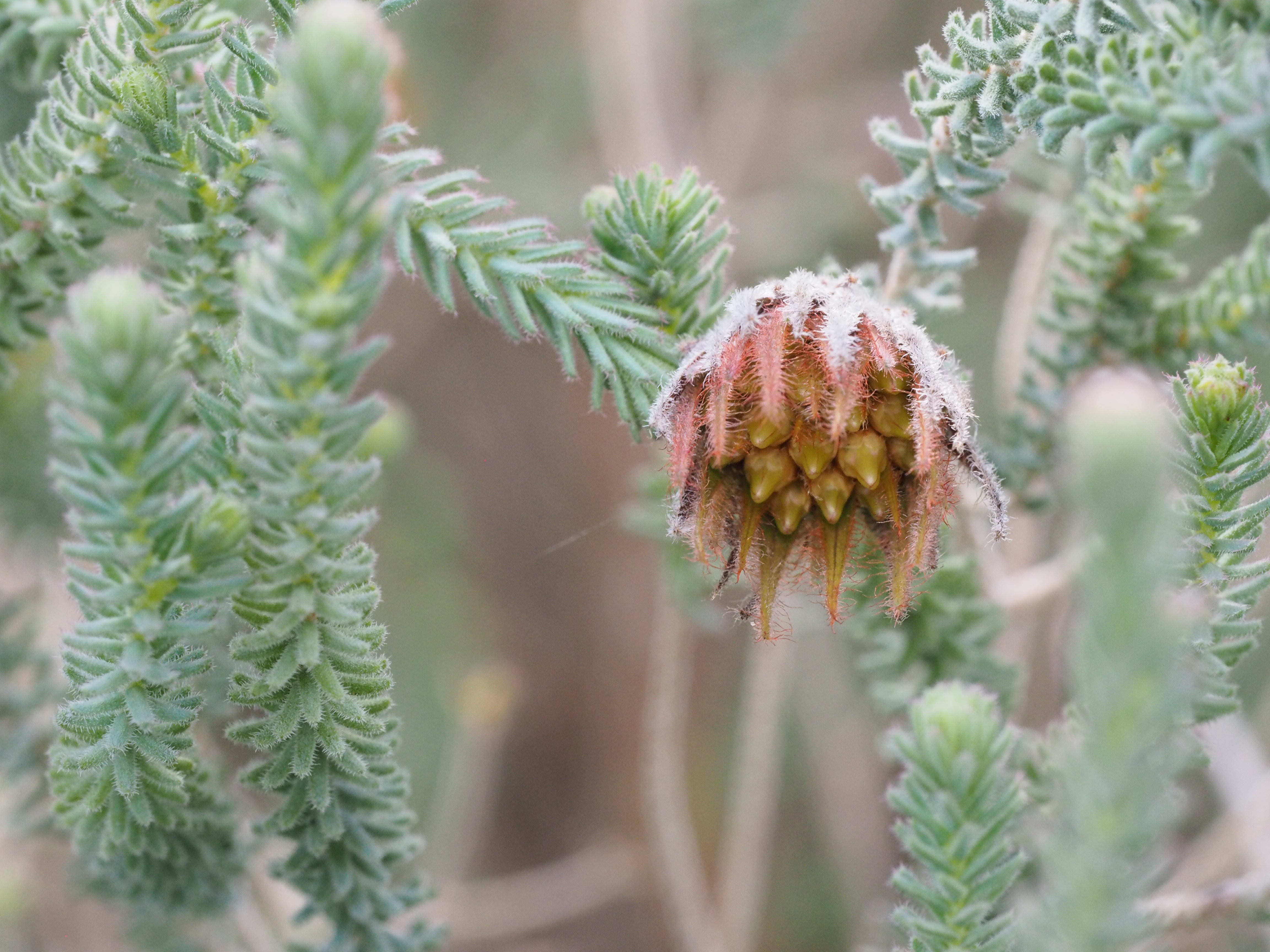 Darwinia chapmanniana growing in Kings Park, Perth